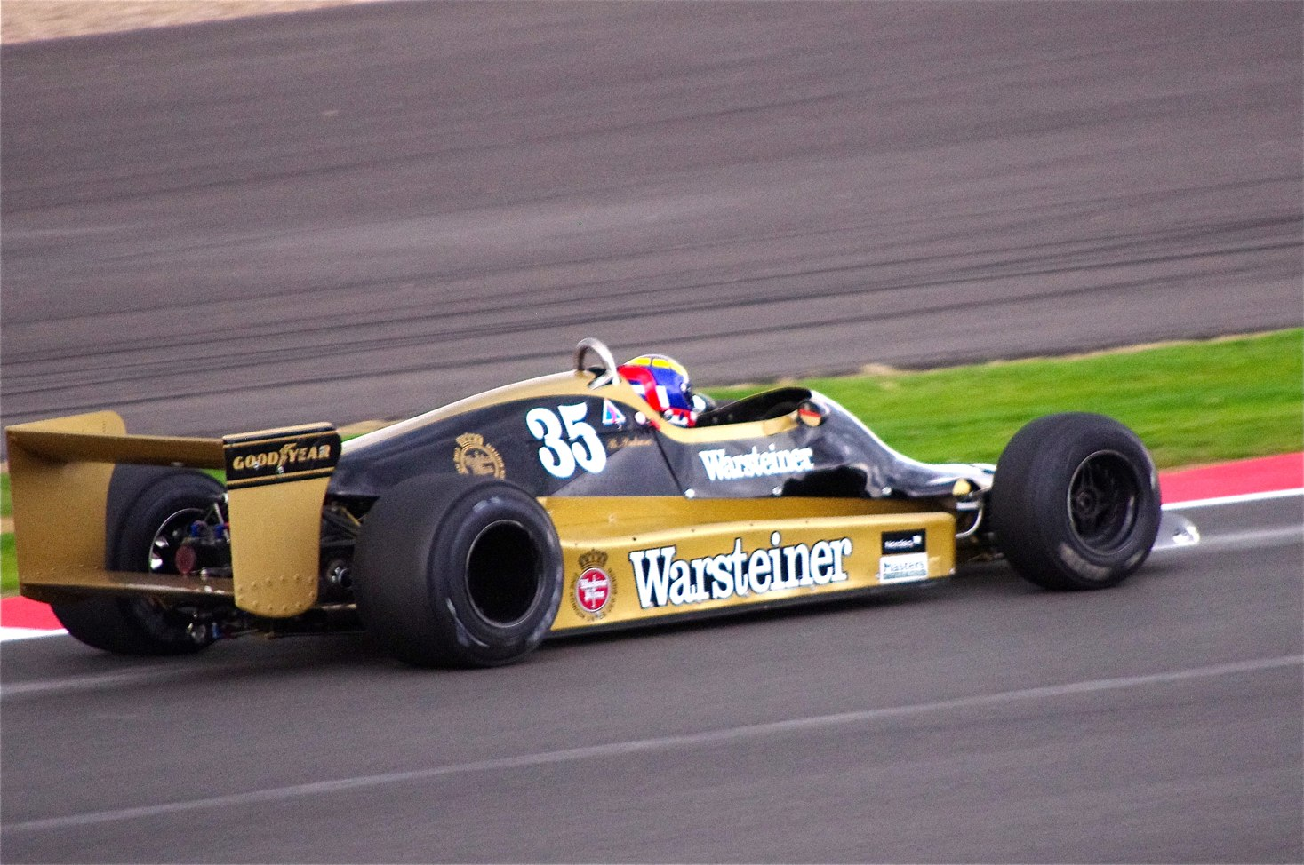 Silverstone Classic 2011